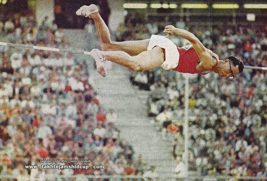 Ni Zhiqin at the 1974 Asian Games in Tehran